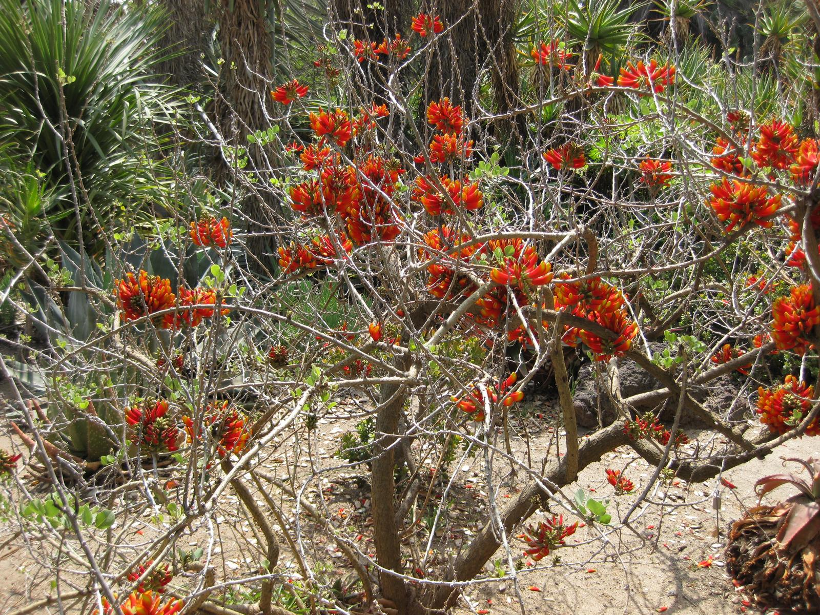 Photographed at Huntington Gardens (Los Angeles) in April